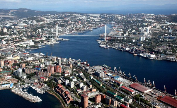 Golden Bridge in Vladivostok, Russia.